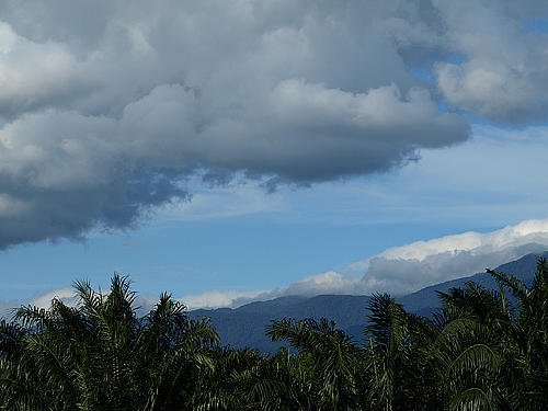 Banjaran Titiwangsa (Titiwangsa Mountain Range).